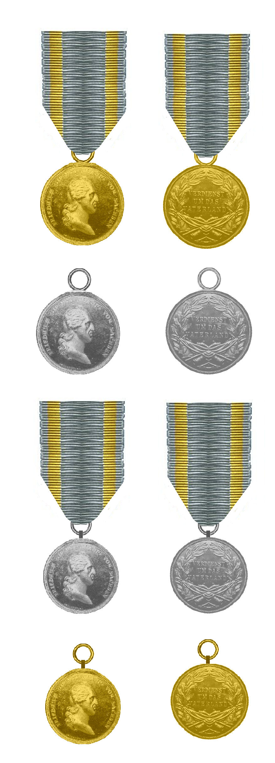 Medal, Military Prder of St. Henry Sachse